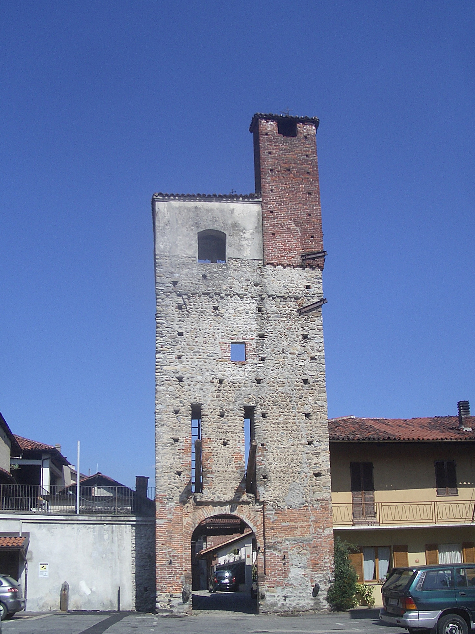 Oglianico, the medieval door-tower leading to the "ricetto"